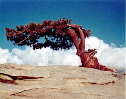 Summer of 1968, Sentinel Dome